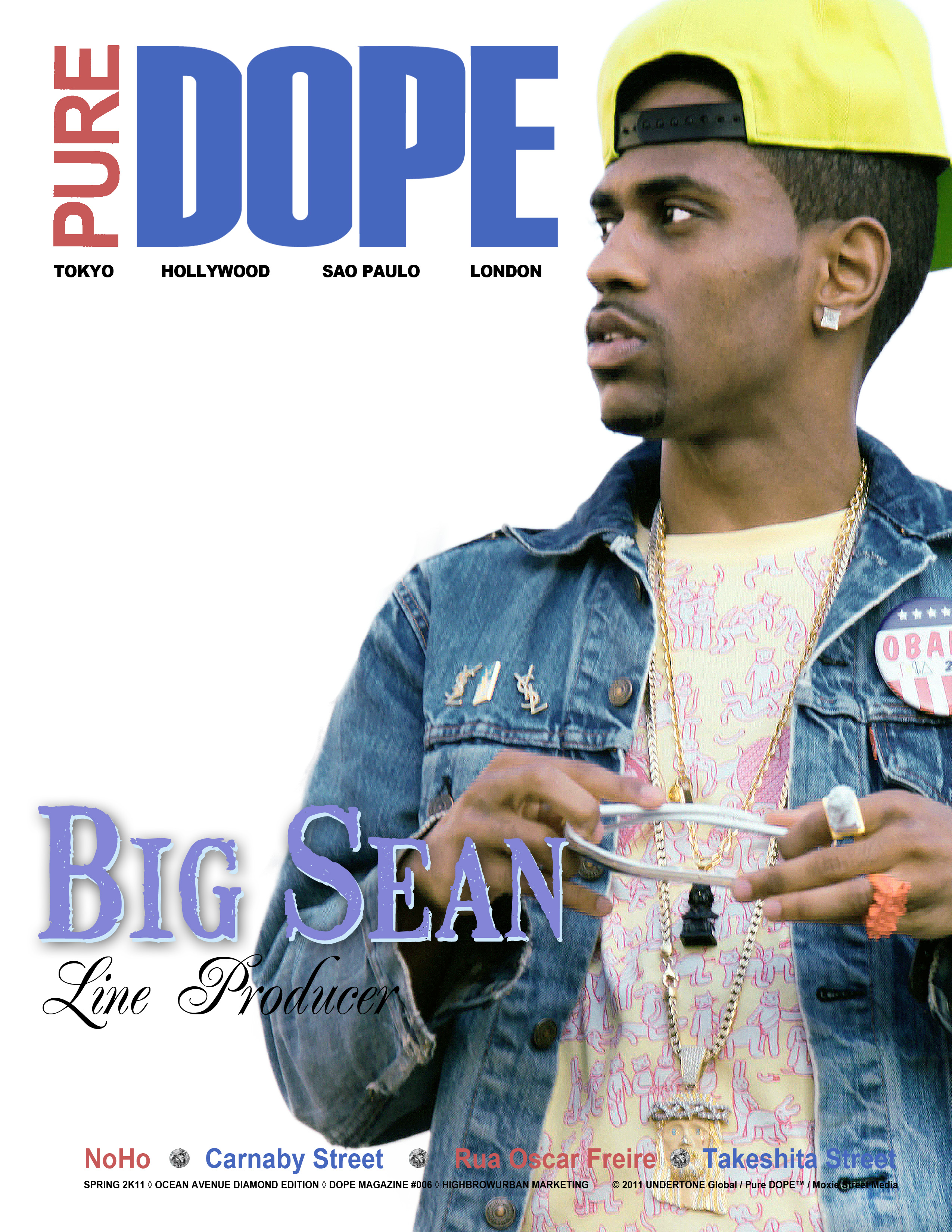 Cover of DOPE MAG's Spring 2K11 issue with Big Sean